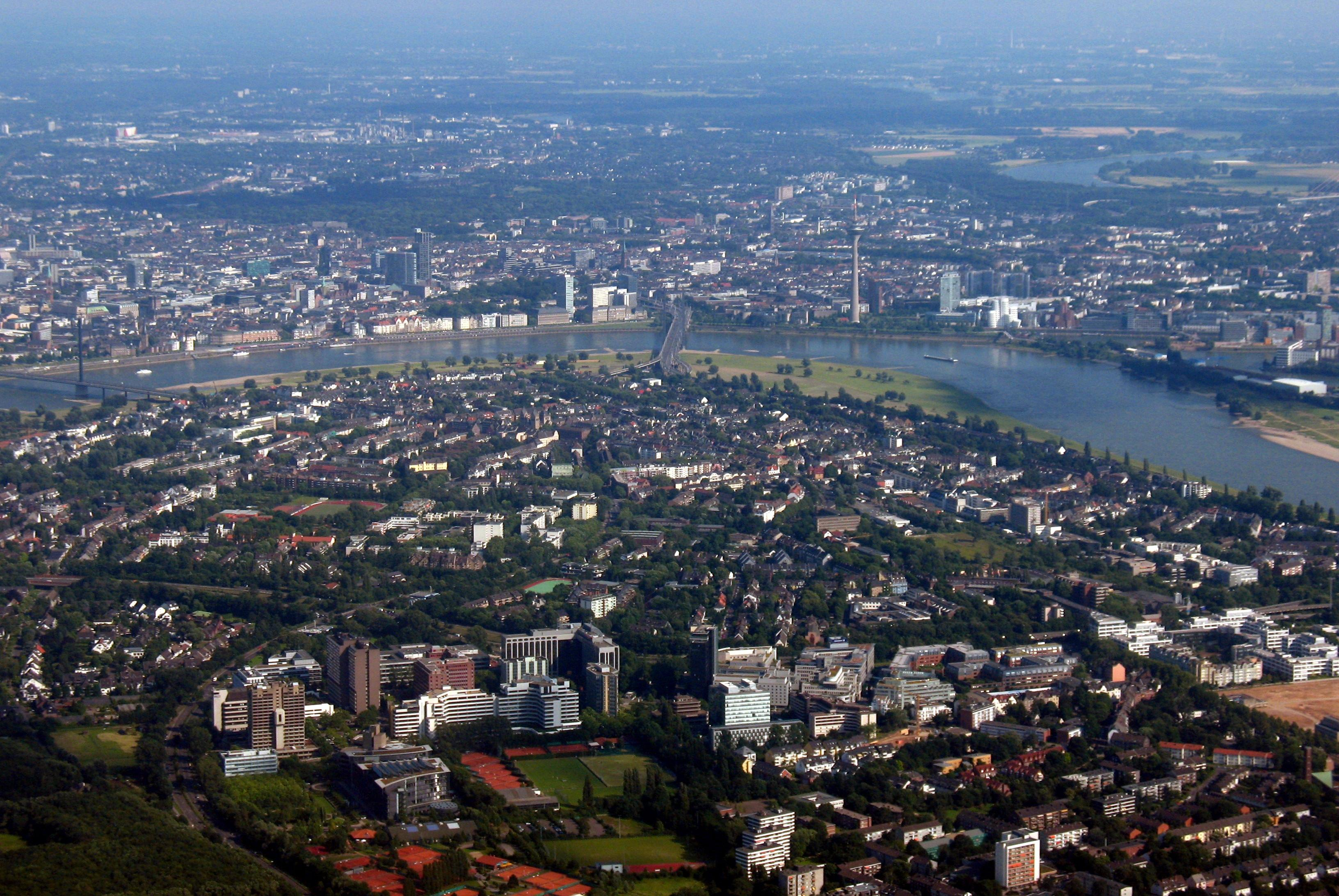 Aereal view of Dusseldorf City (Germany). Taken in June of 2008